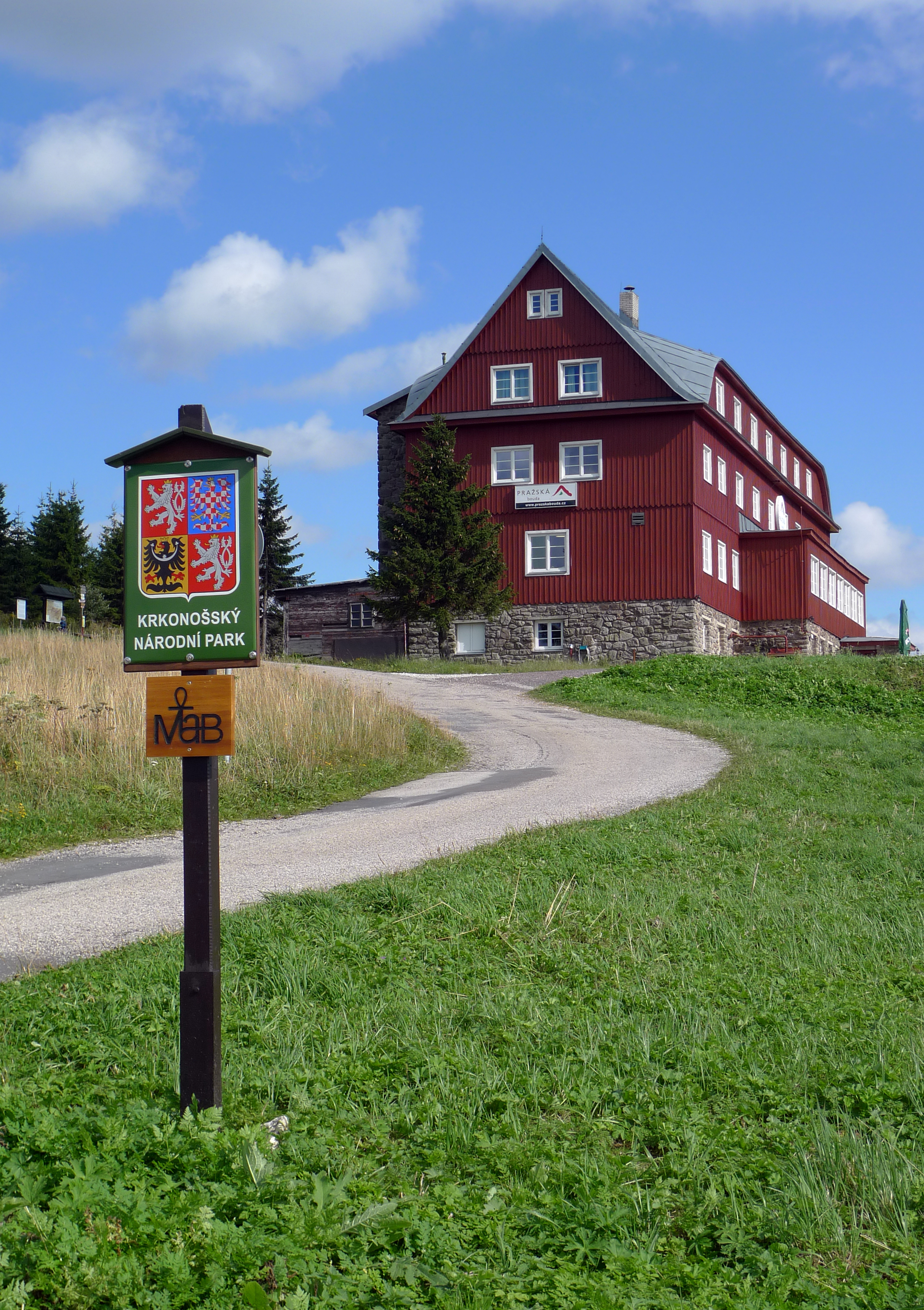 Pražská bouda, Krkonoše, August 2012